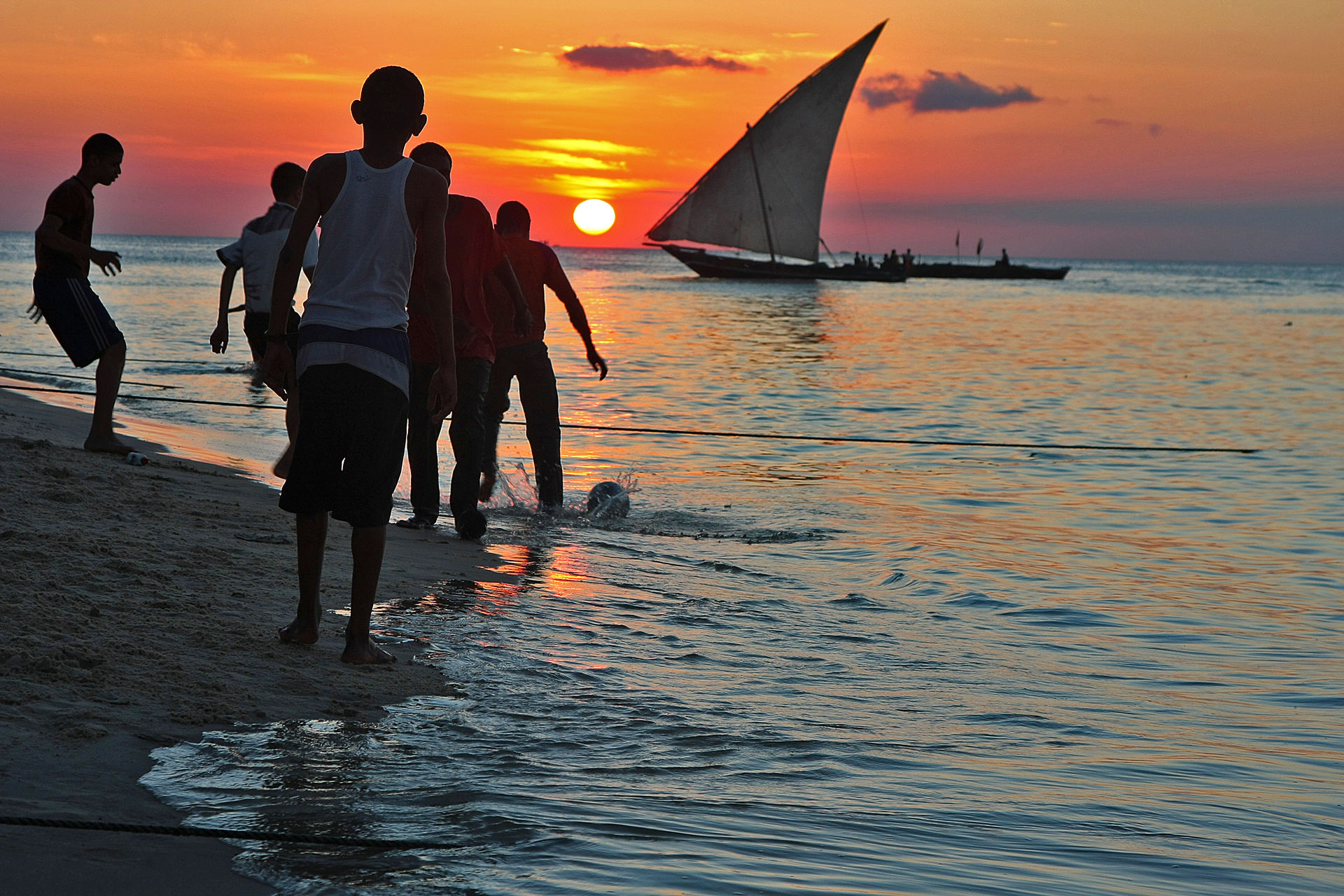 People and places in Zanzibar, Tanzania.